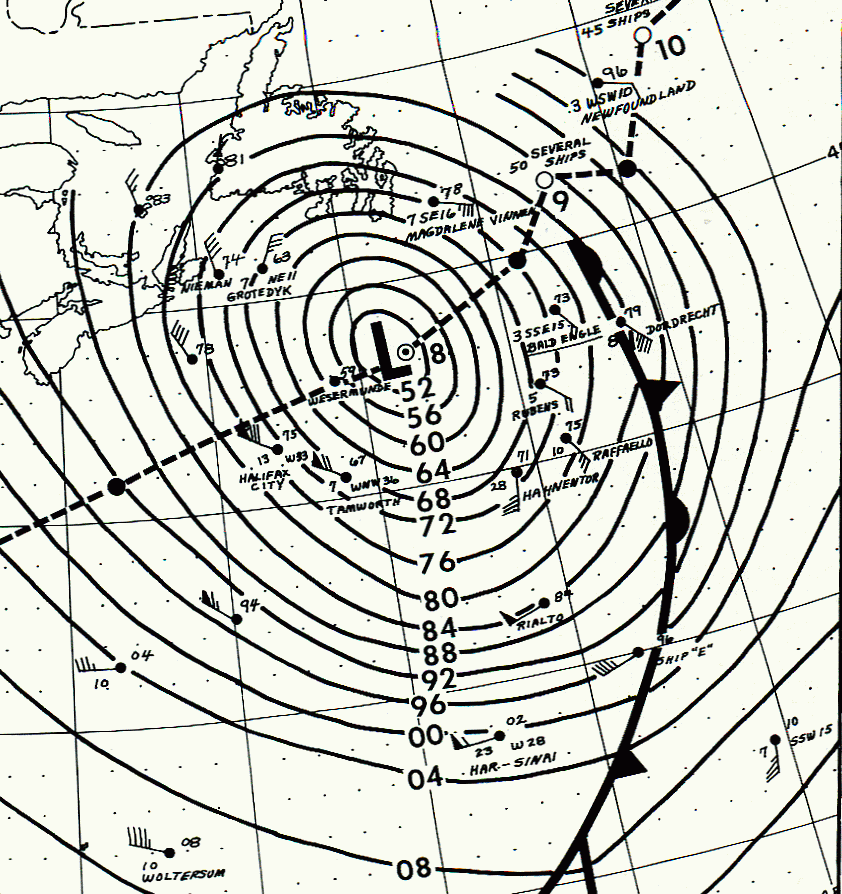 This hurricane-force wind storm tormented the shipping lanes of the Northwest Atlantic ocean from March 6-10, 1969. The image is a surface weather analysis of the system from March 8, 1969 at 1200 UTC. Note the hurricane-force winds around its southwest periphery.